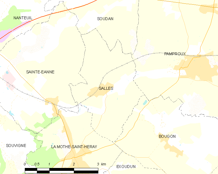 Map of French municipality Salles